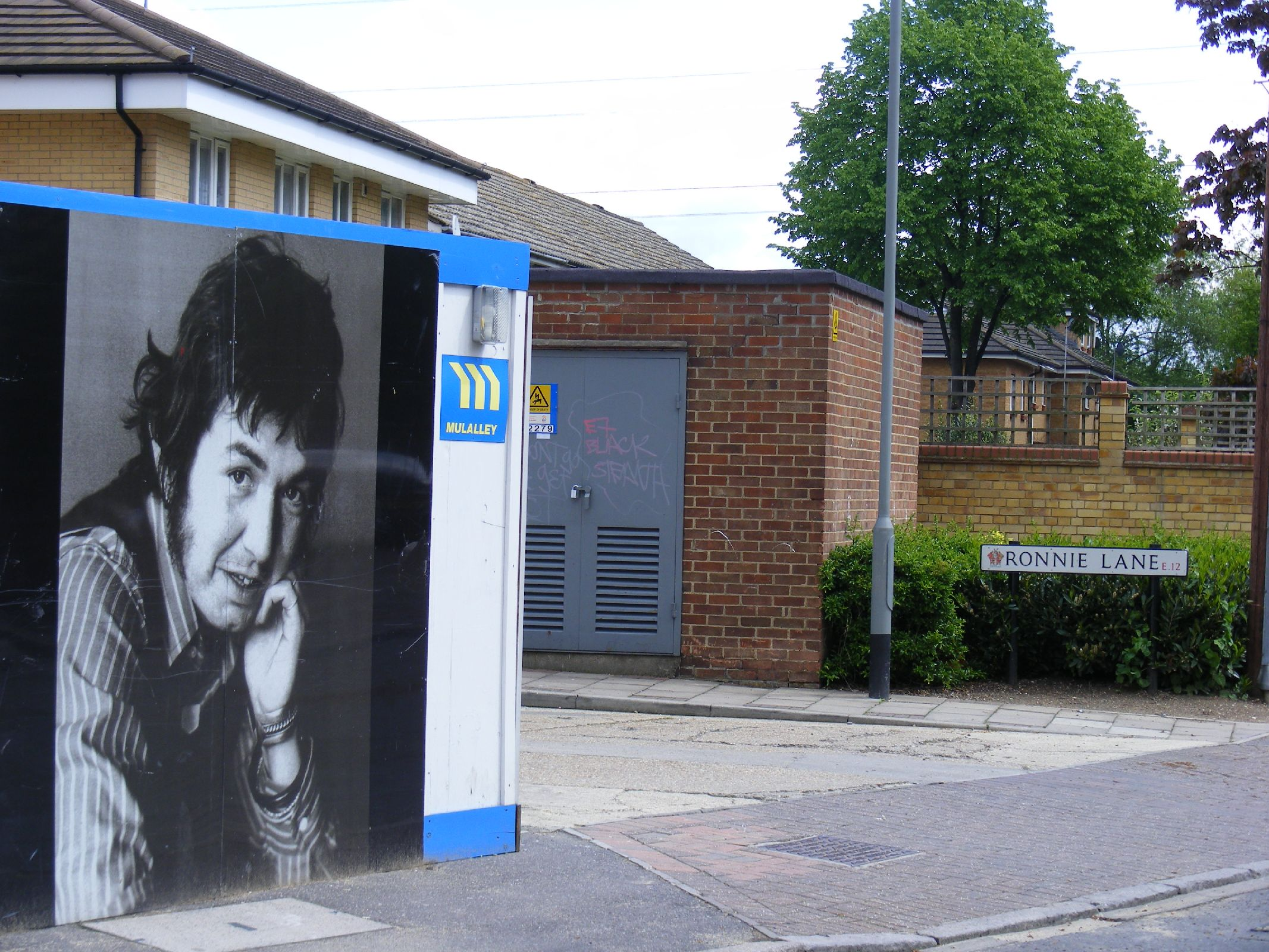 Ronnie Lane, Manor Park, London Borough of Newham. Street named after british musician Ronnie Lane.